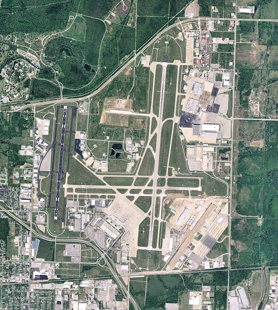 USGS digital orthophoto of Tulsa International Airport in Oklahoma